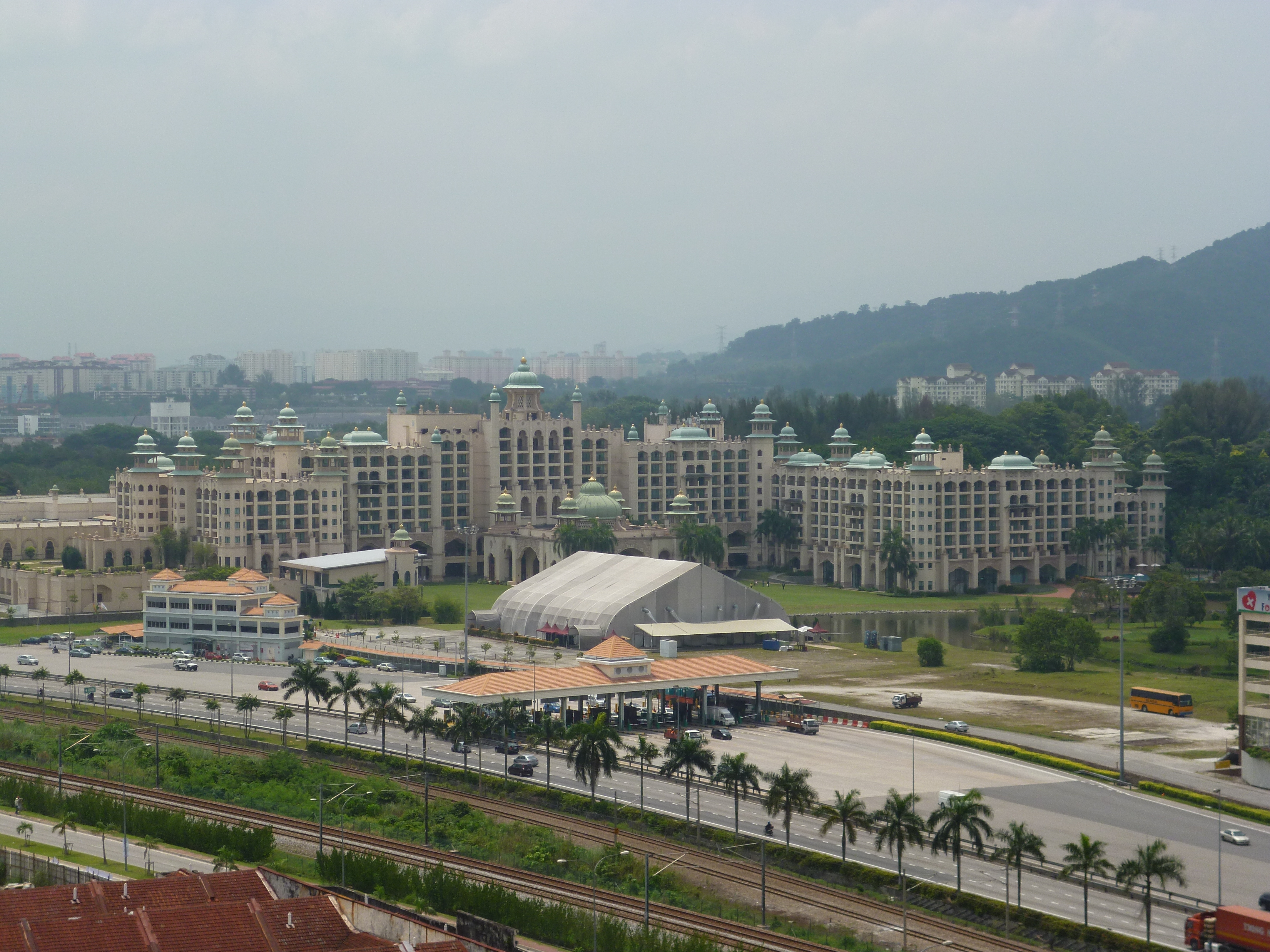 A view of Palace of Golden Horses hotel in Mines Resort City.